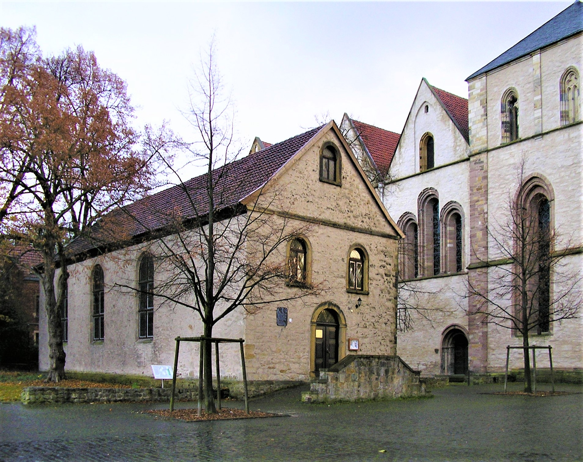 Wolderus chapel next to cathedral in town of Herford, District of Herford, North Rhine-Westphalia, Germany.